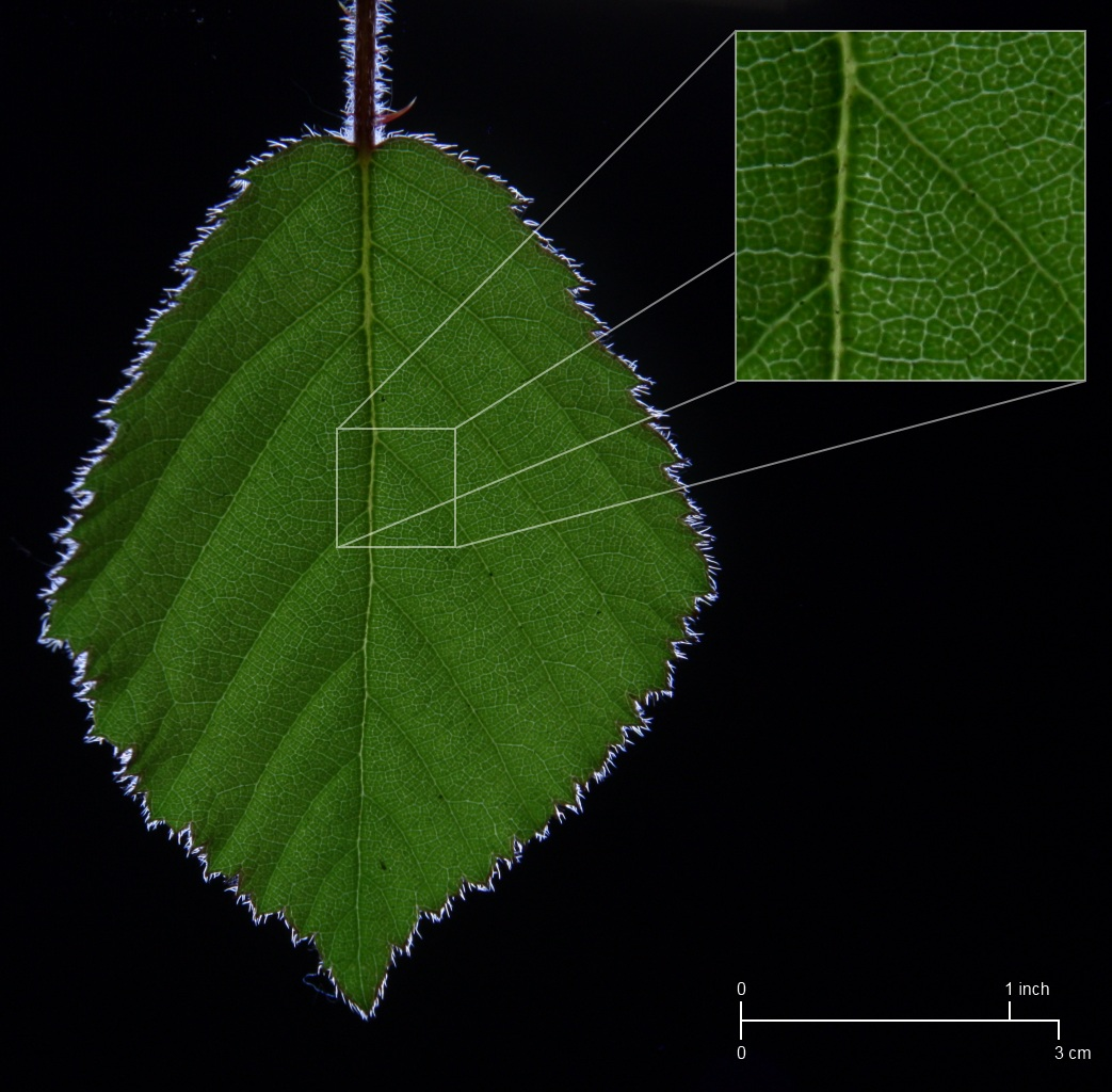 The vasculature of a bramble leaf. Image captured with a polarised light backlight through a cross-polarised filter to give a bright dark background. Edited to include a zoomed in section and scale bar.